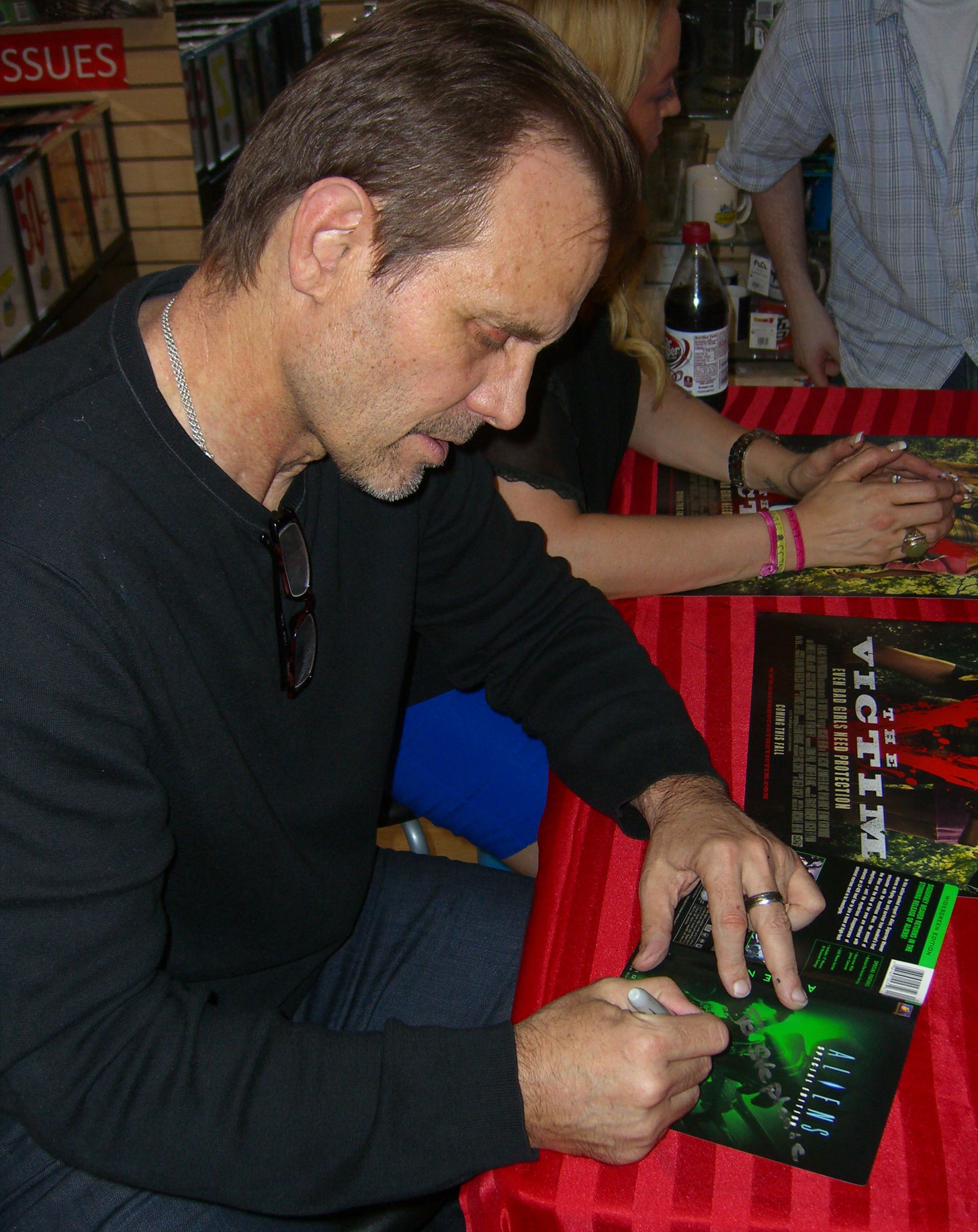 Actor/director Michael Biehn (The Terminator, Aliens, The Abyss) and his wife, actress Jennifer Blanc, at an August 23, 2012 appearance at Midtown Comics Downtown in Manhattan to promote Biehn’s directorial debut, the horror film The Victim, in which both Biehn and Blanc star. In the photo, Biehn is signing the DVD cover of the 1986 film Aliens, in which Biehn starred. The woman seated next to Biehn is his wife, actress Jennifer Blanc, who also stars in The Victim. This photo was created by Luigi Novi. It is not in the public domain, and use of this file outside of the licensing terms is a copyright violation.